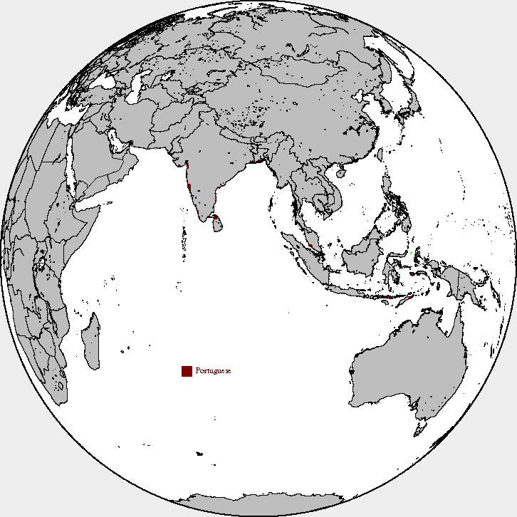 Map of Asia showing colonisation in 1550.